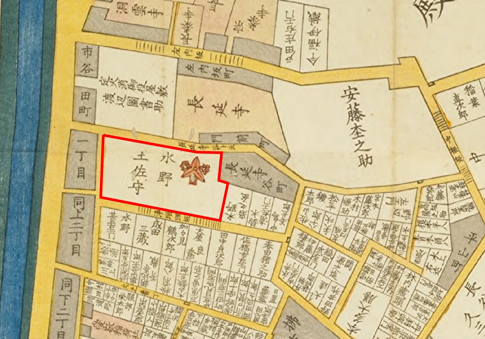 Residence of Mizuno clan at Edo